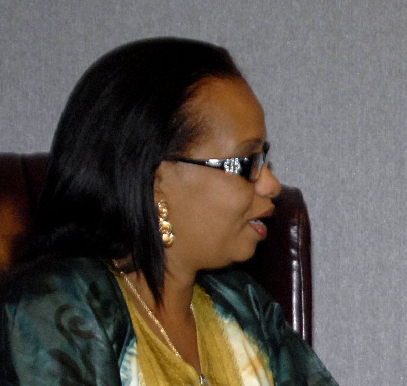 Guiné-Bissau's Foreign minister, Maria da Conceição Nobre Cabral (crop of pic when talking minister Celso Amorim) photo Marcello Casal Jr/ABr